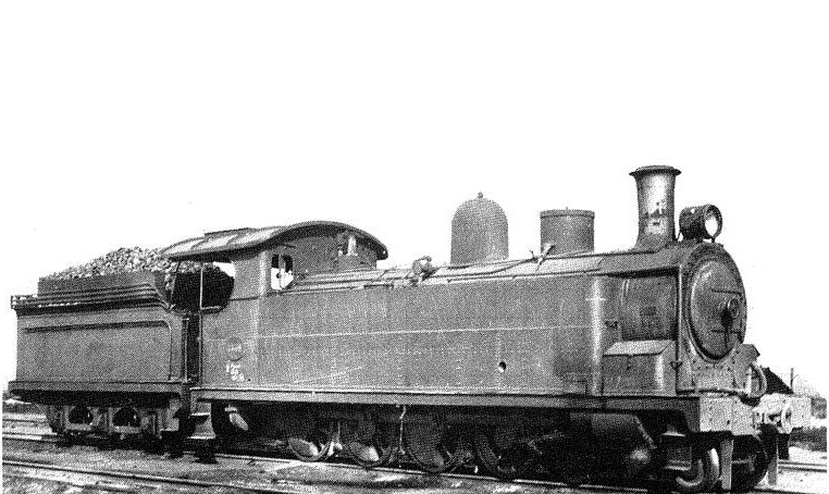 Ex Imperial Military Railway Reid Ten-wheeler (4-10-2T) Ex Central South African Railways Class E (4-8-2T) South African Railways Class 13 (4-8-0TT)